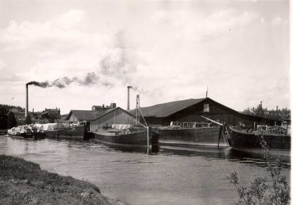 Barges and warehouses at the Jämsänkoski harbor in Finland in 1916